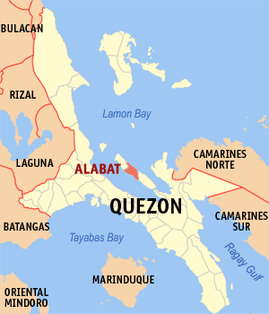 Map of Quezon showing the location of Alabat